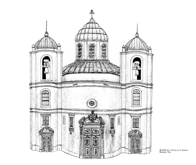 Reconstituição da Igreja São Pedro dos Clérigos, Eduardo Verderame